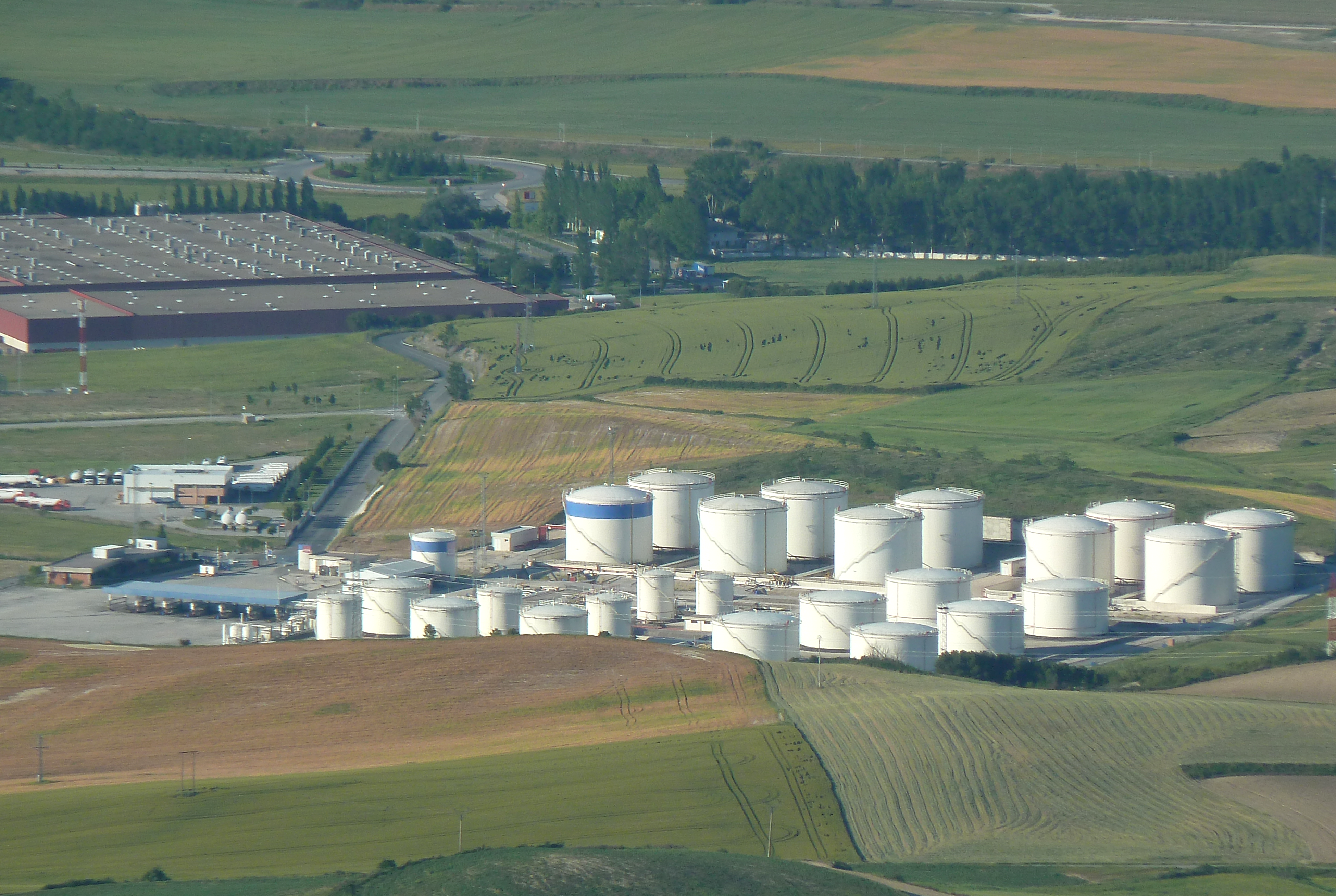 Storage and transportation of petroleum products installations owned by Compañía Logística de Hidrocarburos (CLH) and located in the village of Esparza of Galar. In Navarre this company has to serve others through a negotiated procedure. The fuel in their installations arrives through a branch of the pipeline Bilbao-Zaragoza, which passes very close to the area.